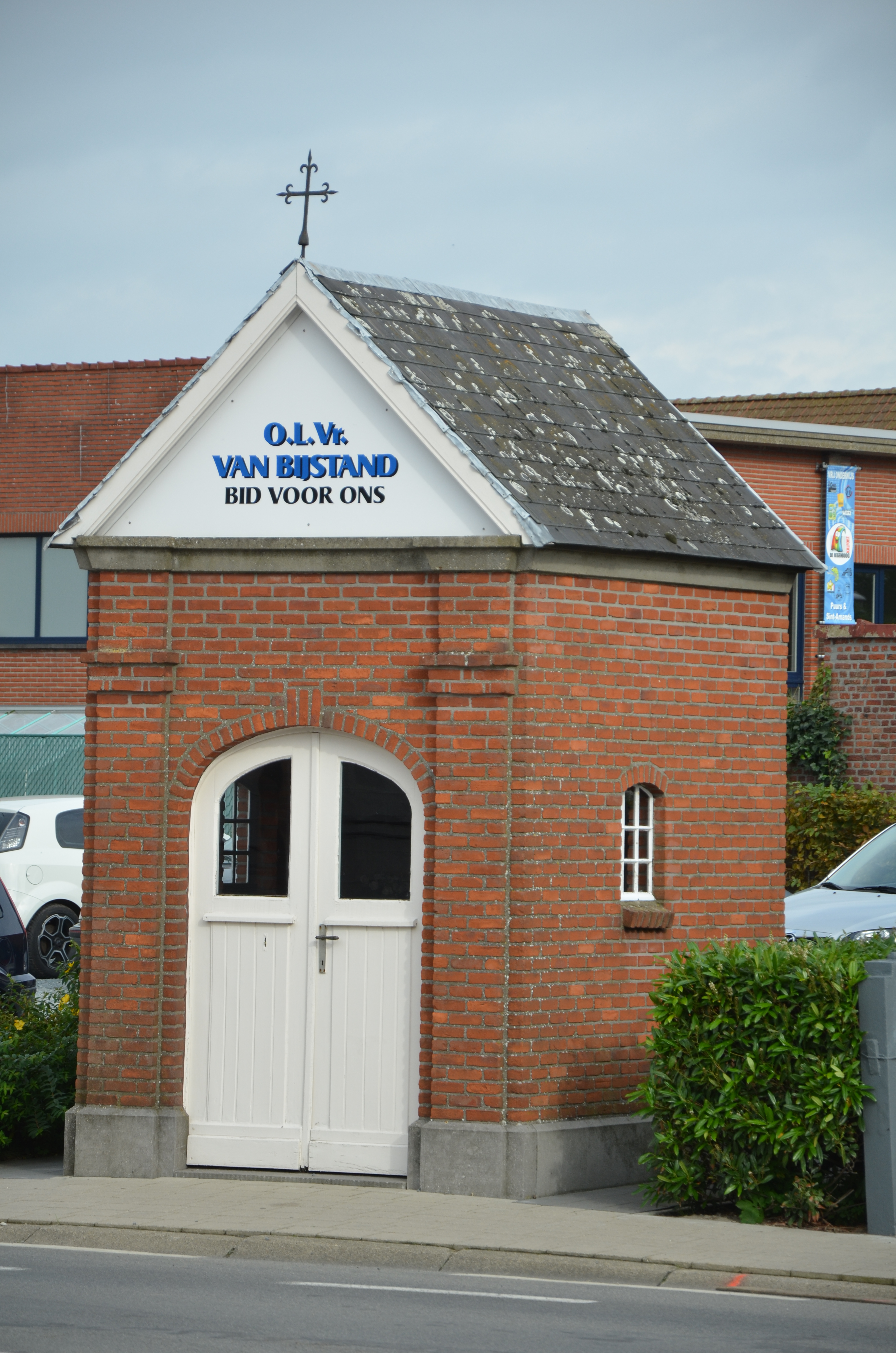 Kapel Onze Lieve Vrouw van Bijstand Puurs